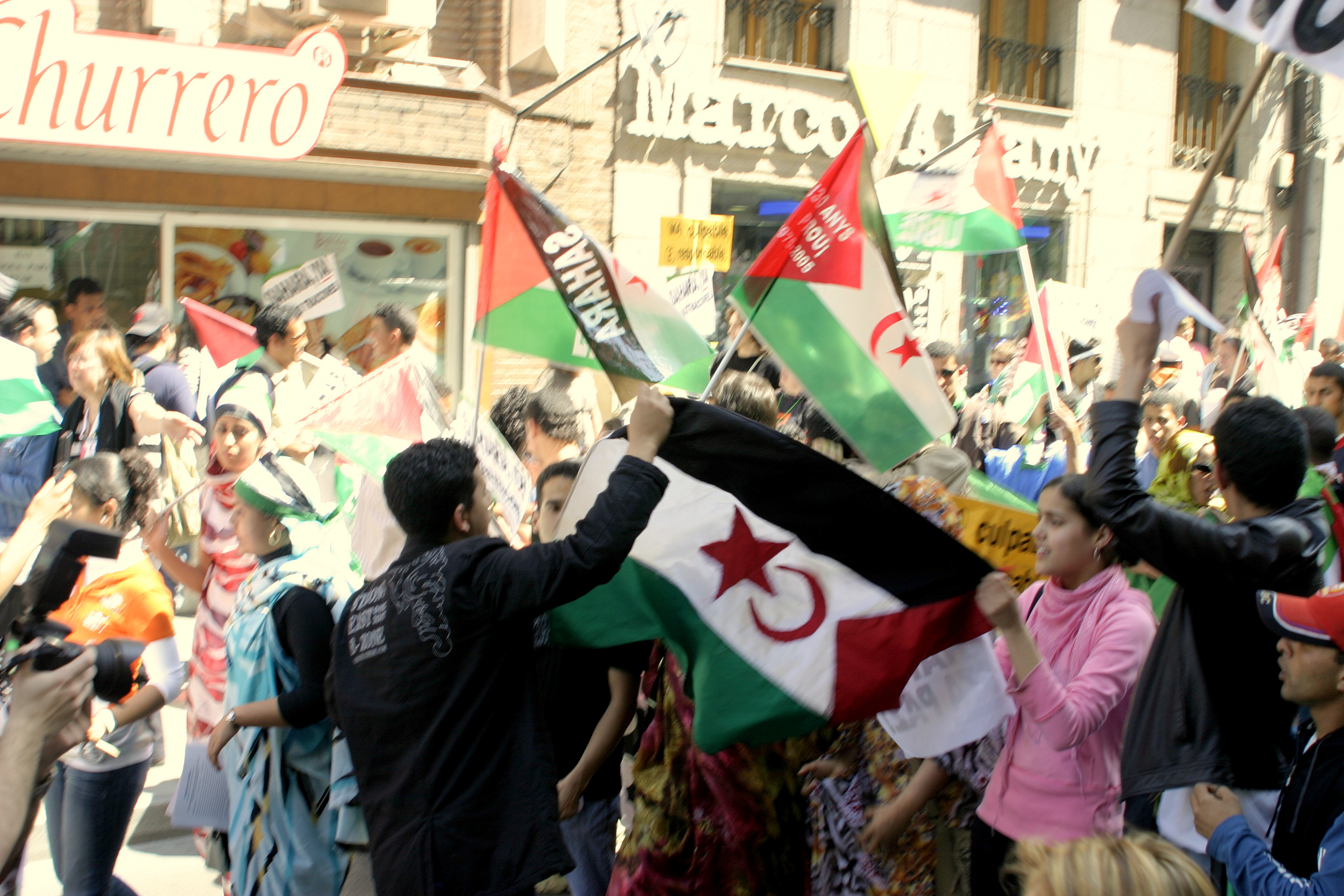 Demonstration in support of the independence of Western Sahara — in Madrid (21 April 2007). Credits 105